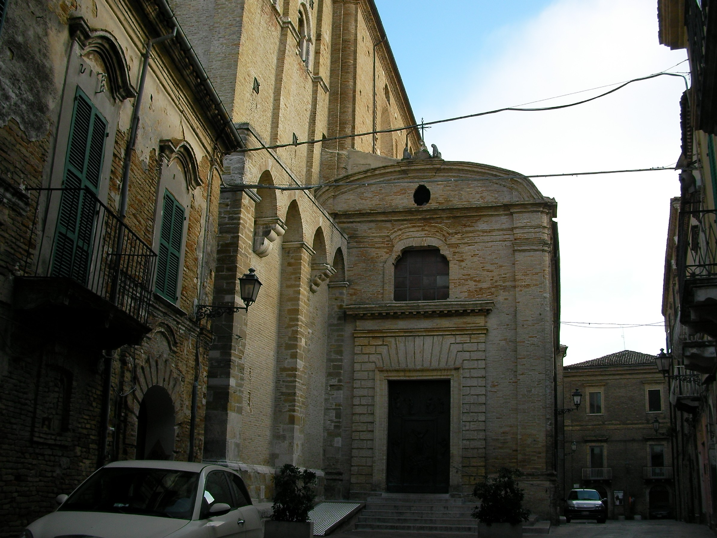 The small entrance of the church of Saint Mary Major, Vasto, province of Chieti, Abruzzo, Italy